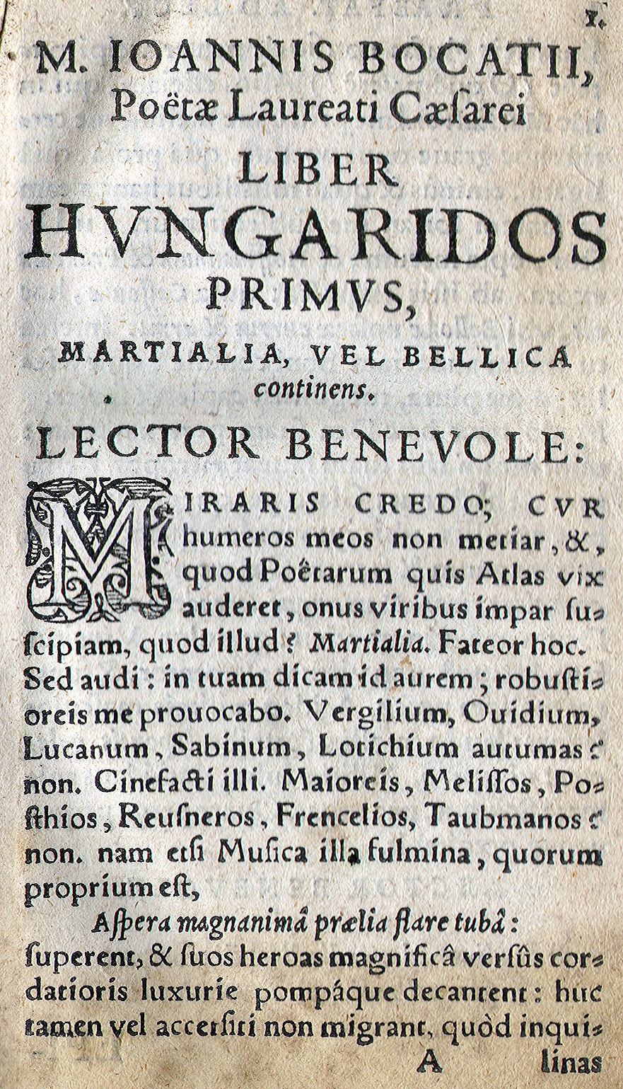 Hungaridos libri poematum V